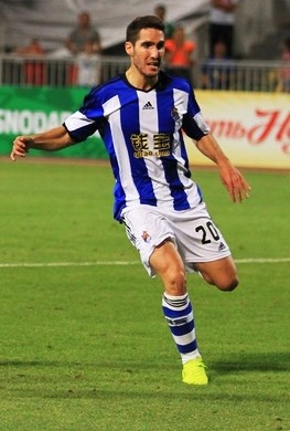 Joseba Zaldúa